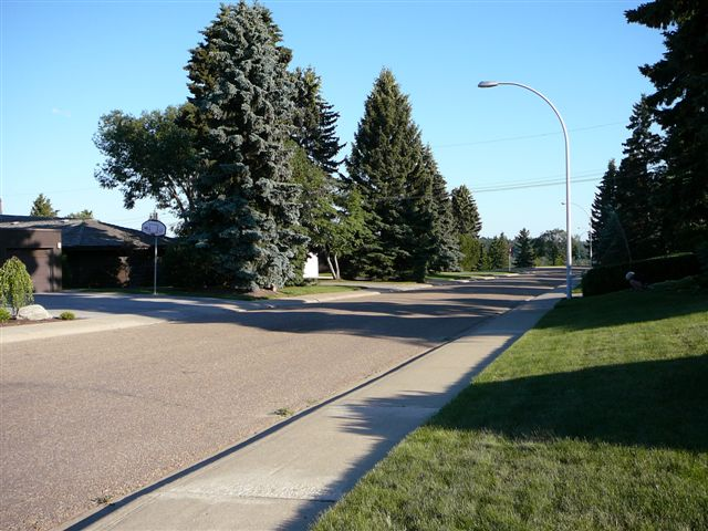 Laurier Heights residential street near Buena Vista Road.